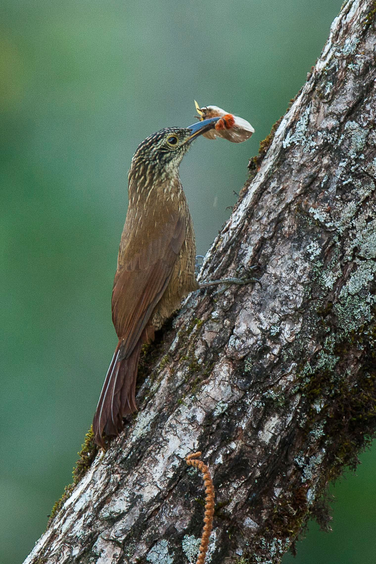 Planalto Woodcreeper - Itatiaia - Brazil_MG_0389